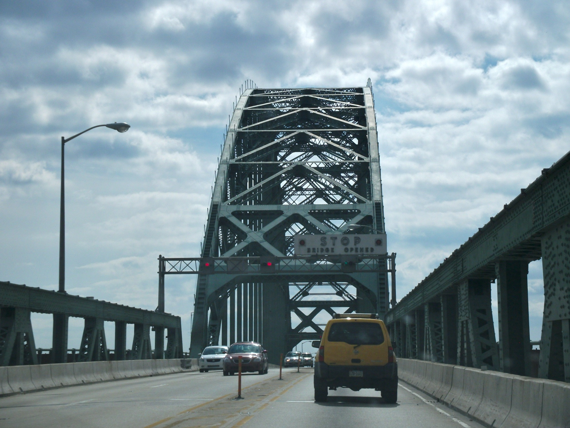 The Tacony–Palmyra Bridge, on Pennsylvania State Route 73, viewed from the roadway. Note the "Stop: Bridge Opened" sign, which lights up when the bridge's bascule-type draw span opens to allow a ship to pass underneath.